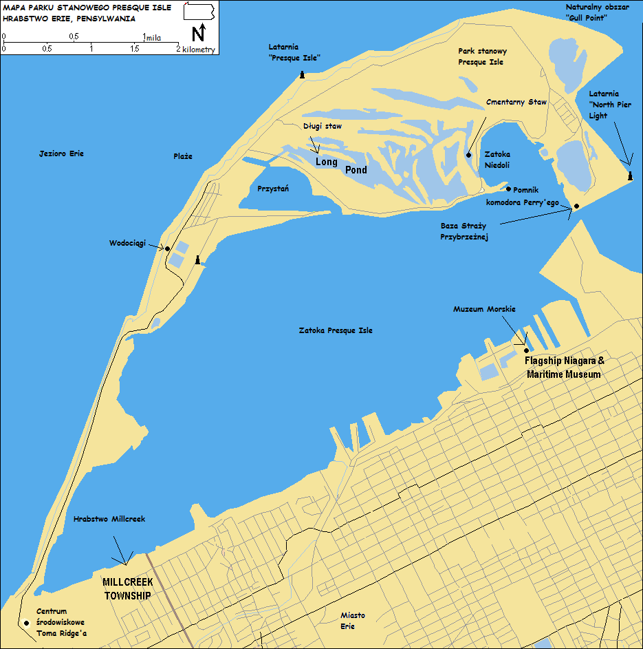 Polish map of Presque Isle State Park